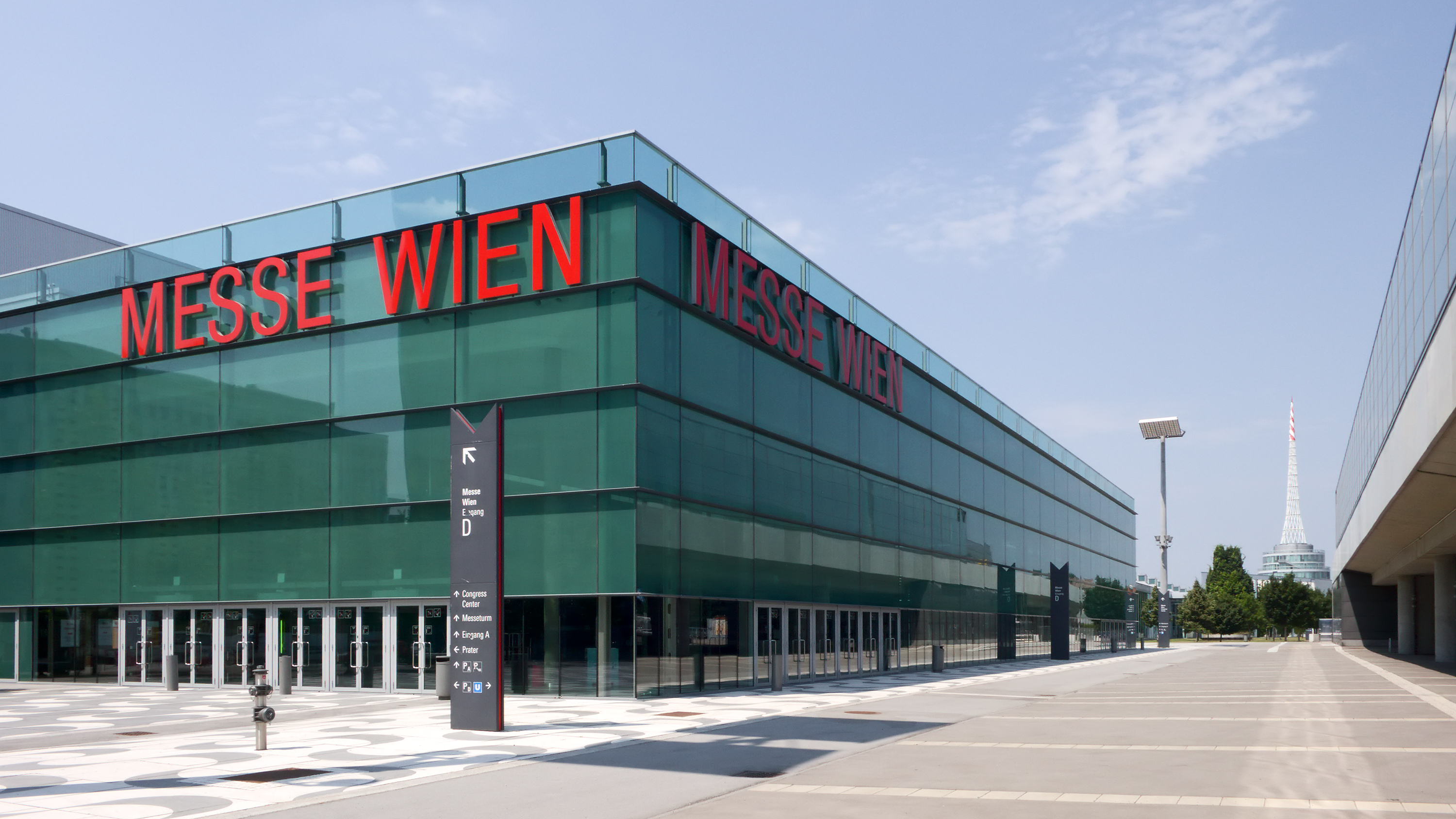 Trade fair Messe Wien in Vienna Leopoldstadt